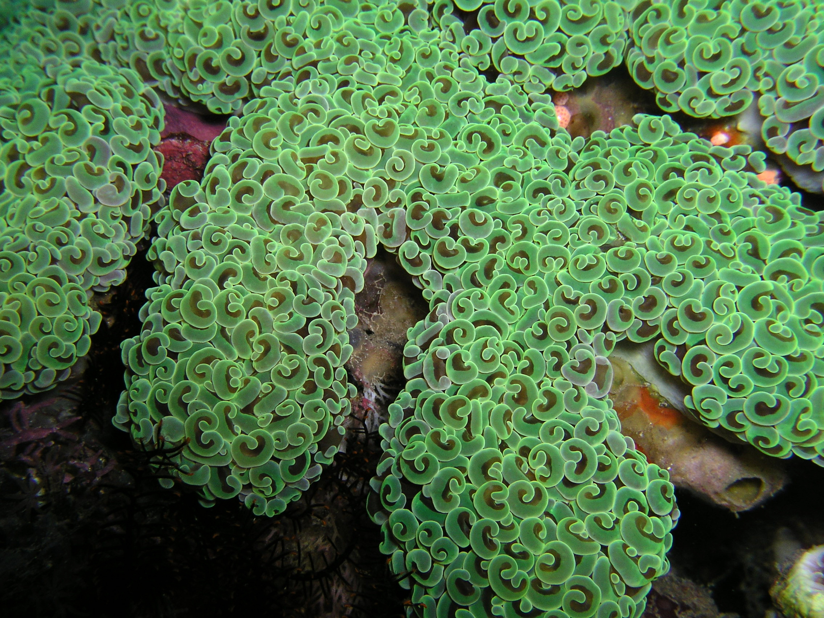 Euphyllia ancora (Anchor bubble coral)